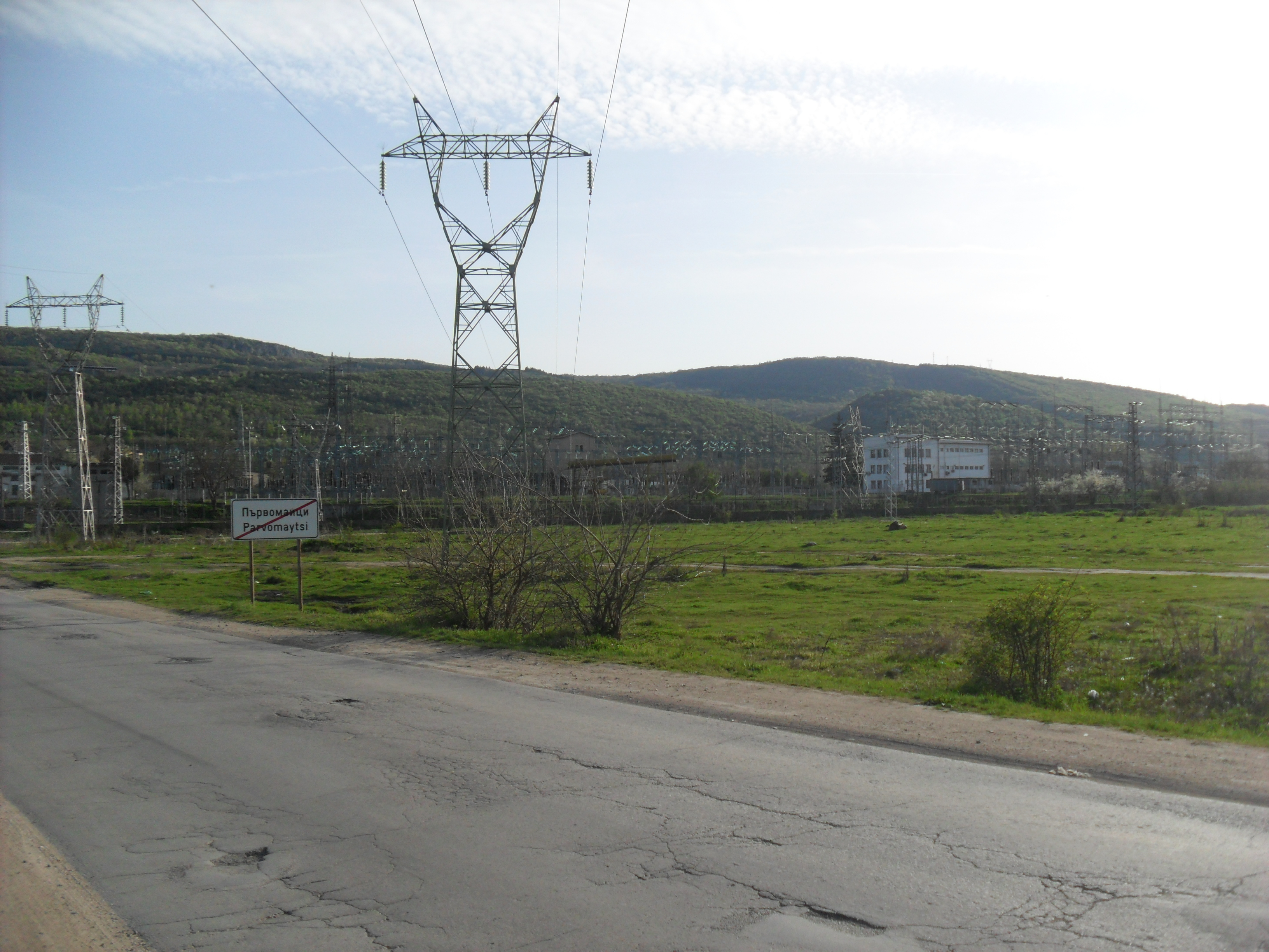 Parvomaitsi substation, Bulgaria